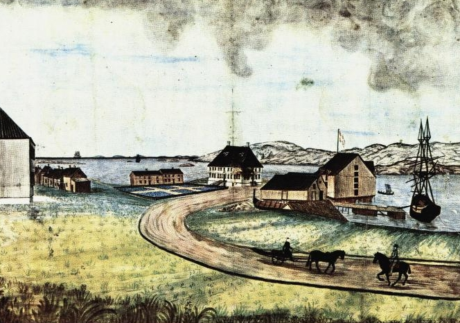 Drawing of the premises of Hundholmkompaniet at Bodø, Norway in 1819, show what today is at the center of city of Bodø